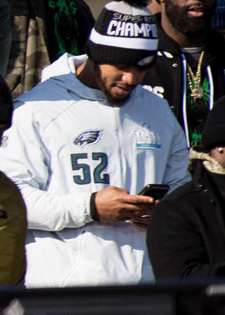 February 8, 2018 Philadelphia, PA